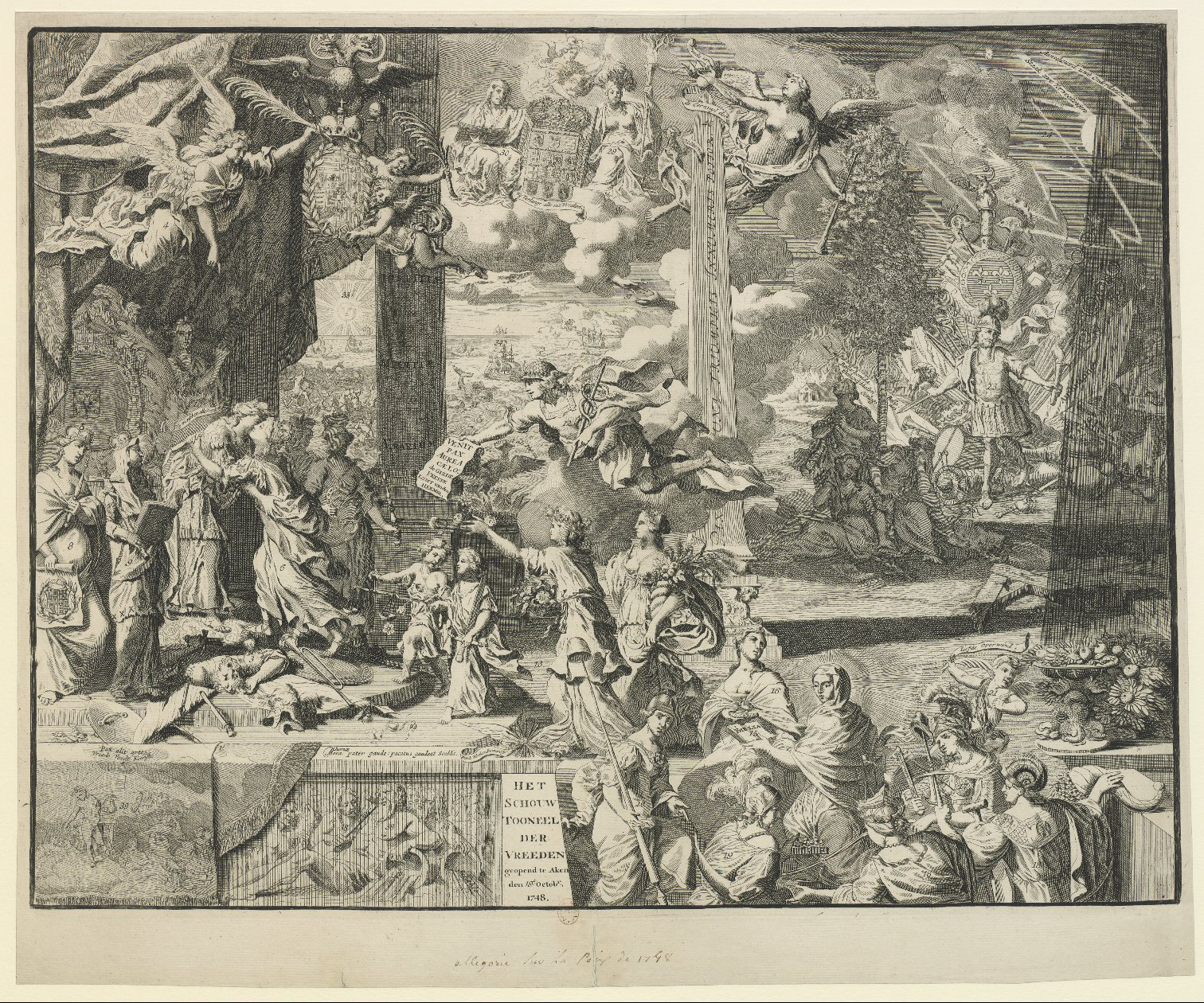 Allegory of the peace of Aix-la-Chapelle.